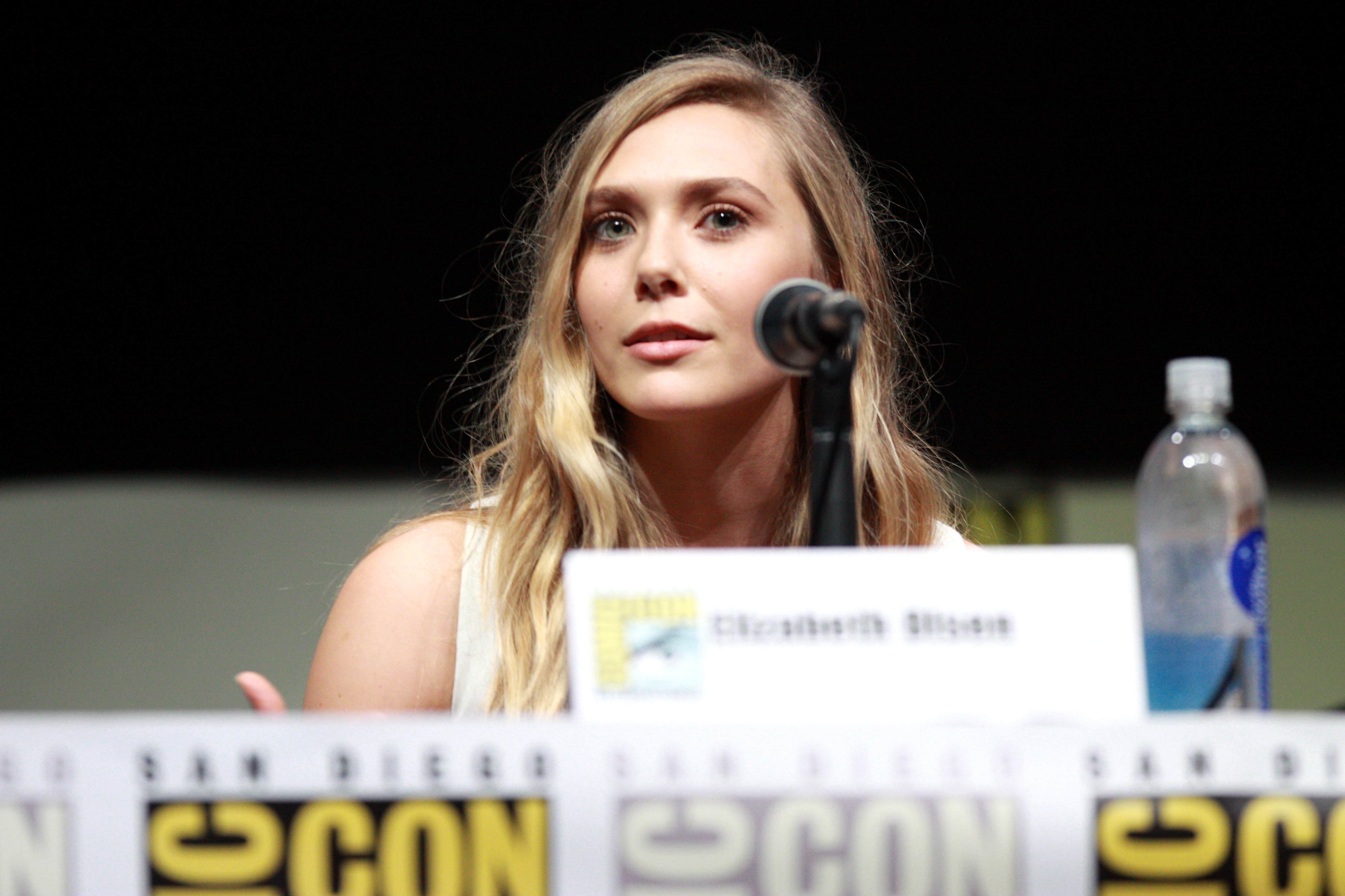 Elizabeth Olsen speaking at the 2013 San Diego Comic Con International, for "Godzilla", at the San Diego Convention Center in San Diego, California.